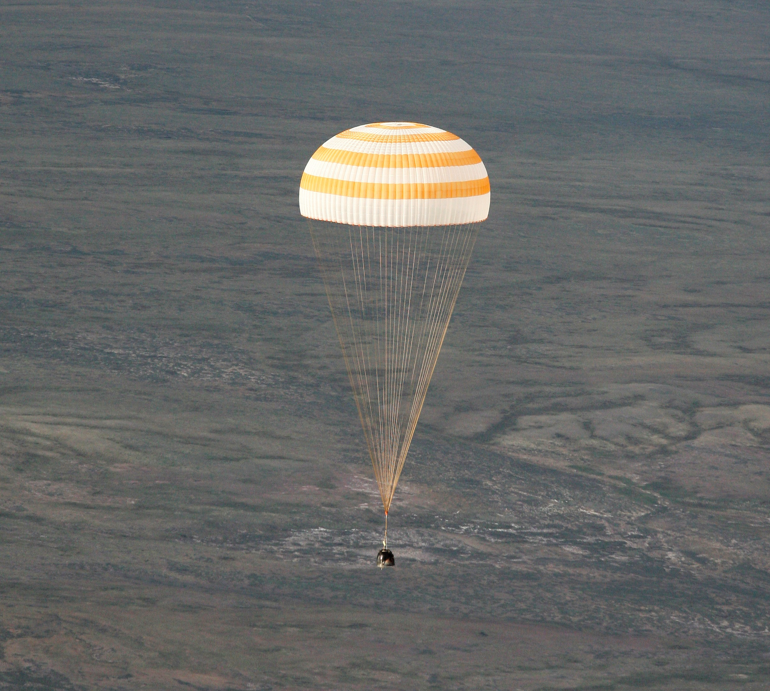 JSC2007-E-20747 (21 April 2007) --- The Soyuz TMA-9 spacecraft floats to a landing southwest of Karaganda, Kazakhstan at approximately 6:30 p.m. local time on April 21, 2007. Onboard were astronaut Michael E. Lopez-Alegria, Expedition 14 commander and NASA space station science officer; cosmonaut Mikhail Tyurin, Soyuz commander and flight engineer representing Russia's Federal Space Agency; and U.S. spaceflight participant Charles Simonyi.